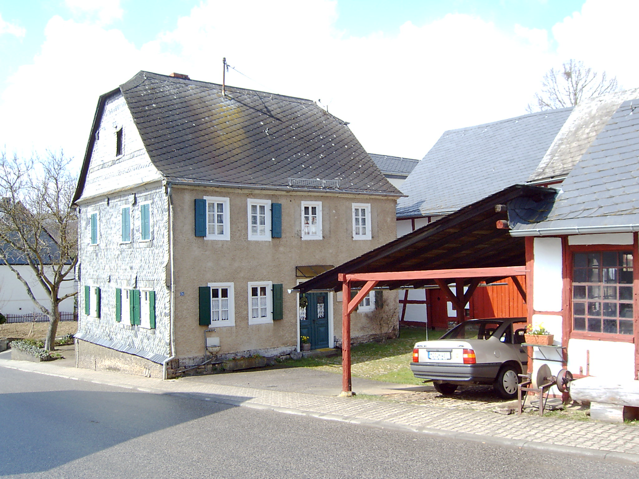 Farmhouse with forge in Gehlweiler (Hunsrück, Germany), filming location of Heimat_(film) by Edgar Reitz